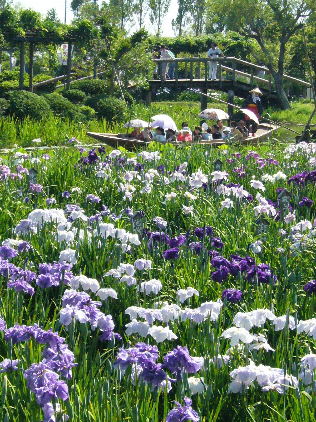 Japanese iris at the Suigo Sawara Ayame Park in Katori City, Chiba Prefecture, Japan